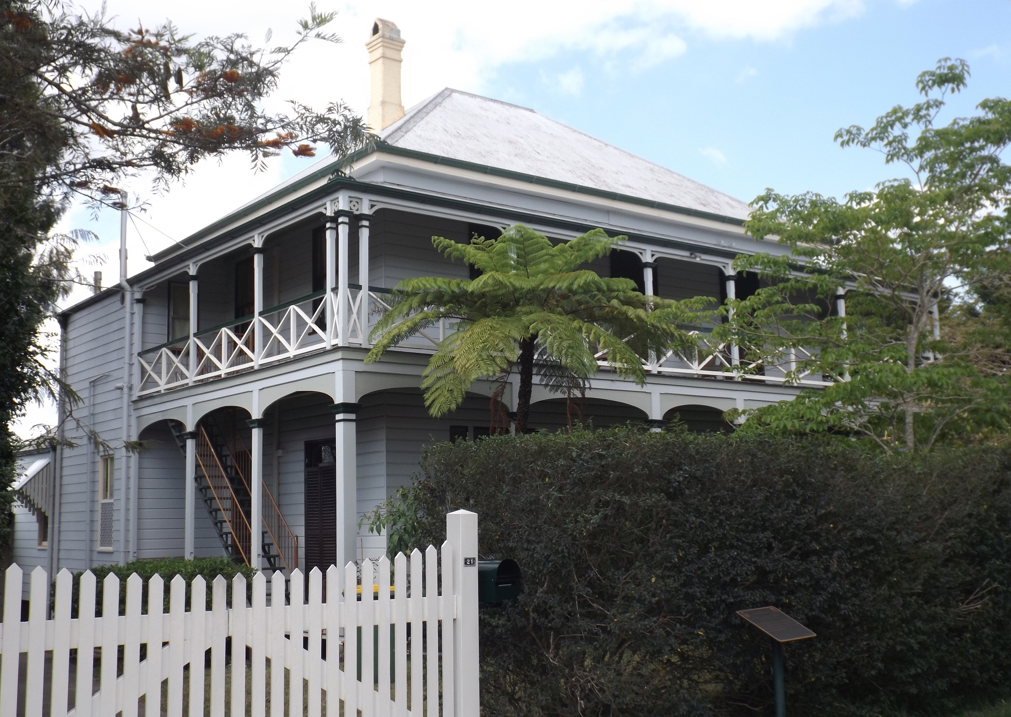 Photo of the Central Congregational Church Manse at Ipswich, Queensland, Australia.